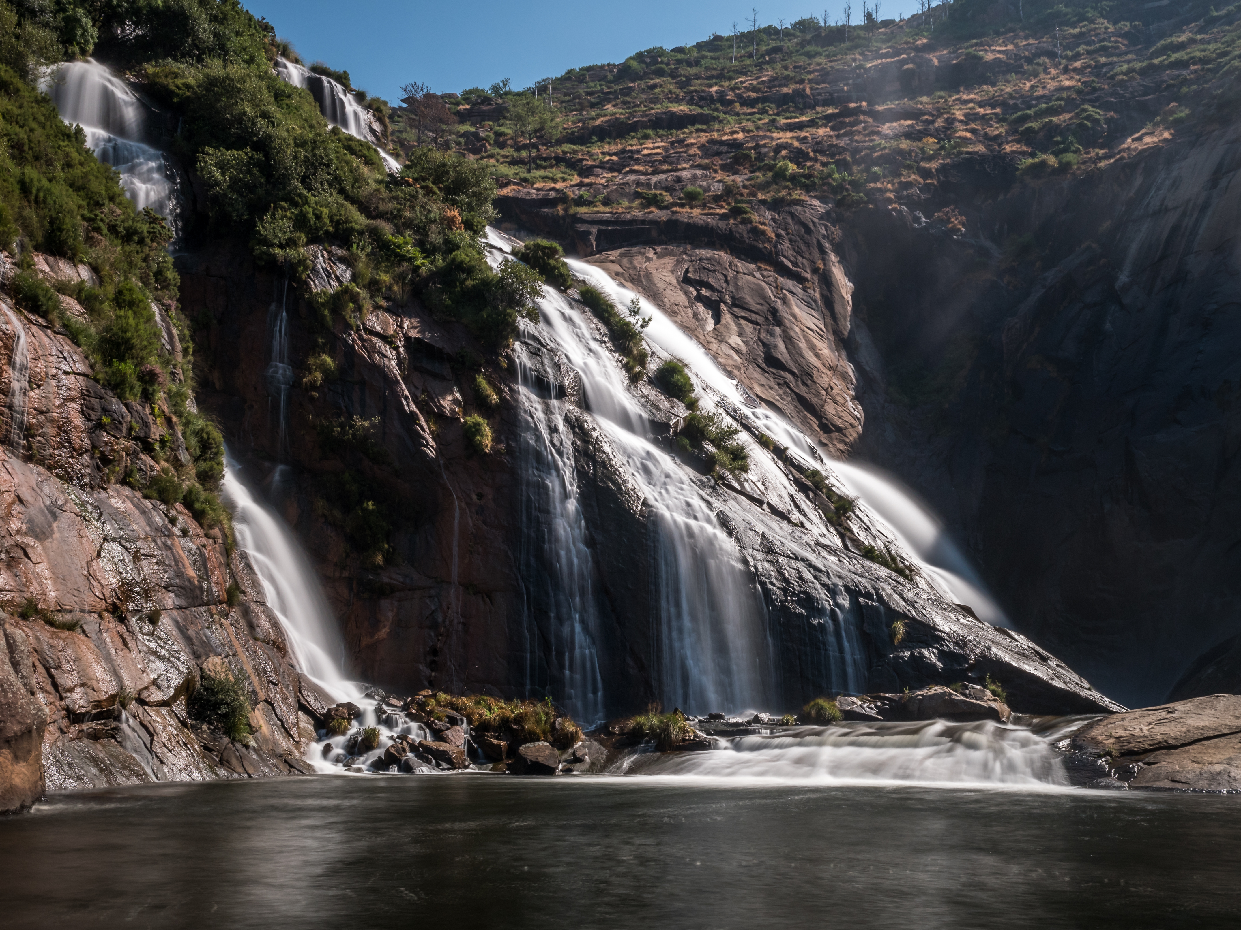 Ezaro Waterfall. Costa da Morte, La Coruña, Spain